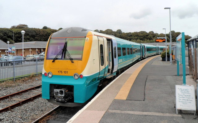 Departure for Cardiff Central waits in Milford Haven railway station. Some departures from here go to Manchester Piccadilly, but this one, the 5.07pm departure, is for Cardiff Central. The 3-coach Arriva Trains Wales diesel multiple unit is numbered 175 101.